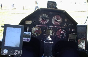 at Itakura Gliderport, Gunma, Japan. Photo: K.Shimada. The instrument panel of a sailplane. Two GPS units with three displays. Compass on the top, two variometers, air speed indicator, glide computer/audio variometer control, altimeter, and clock. VHF radio is hidden behind the control stick.